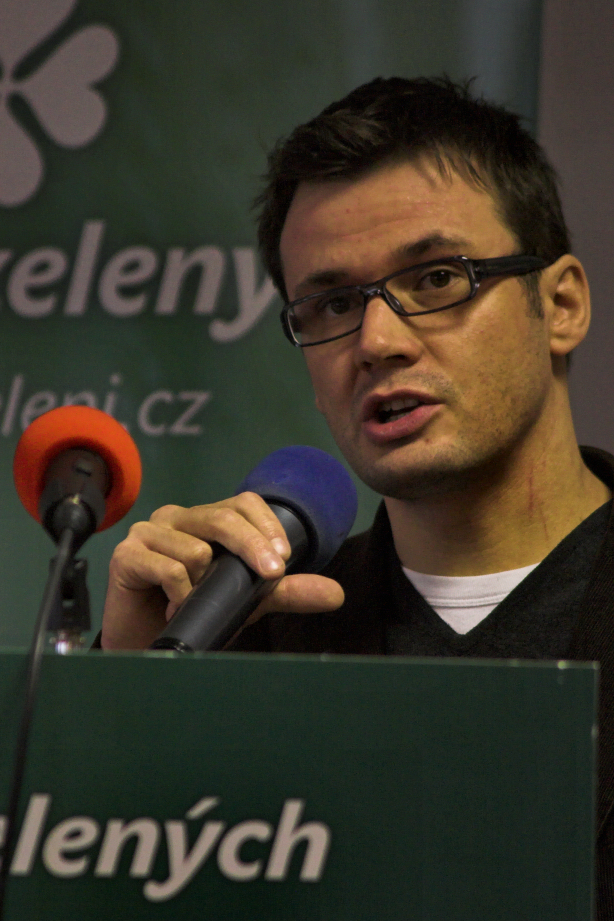 Ondřej Liška at Republic Council of Strana Zelených (Green Party) in Prague, Czech Republic.